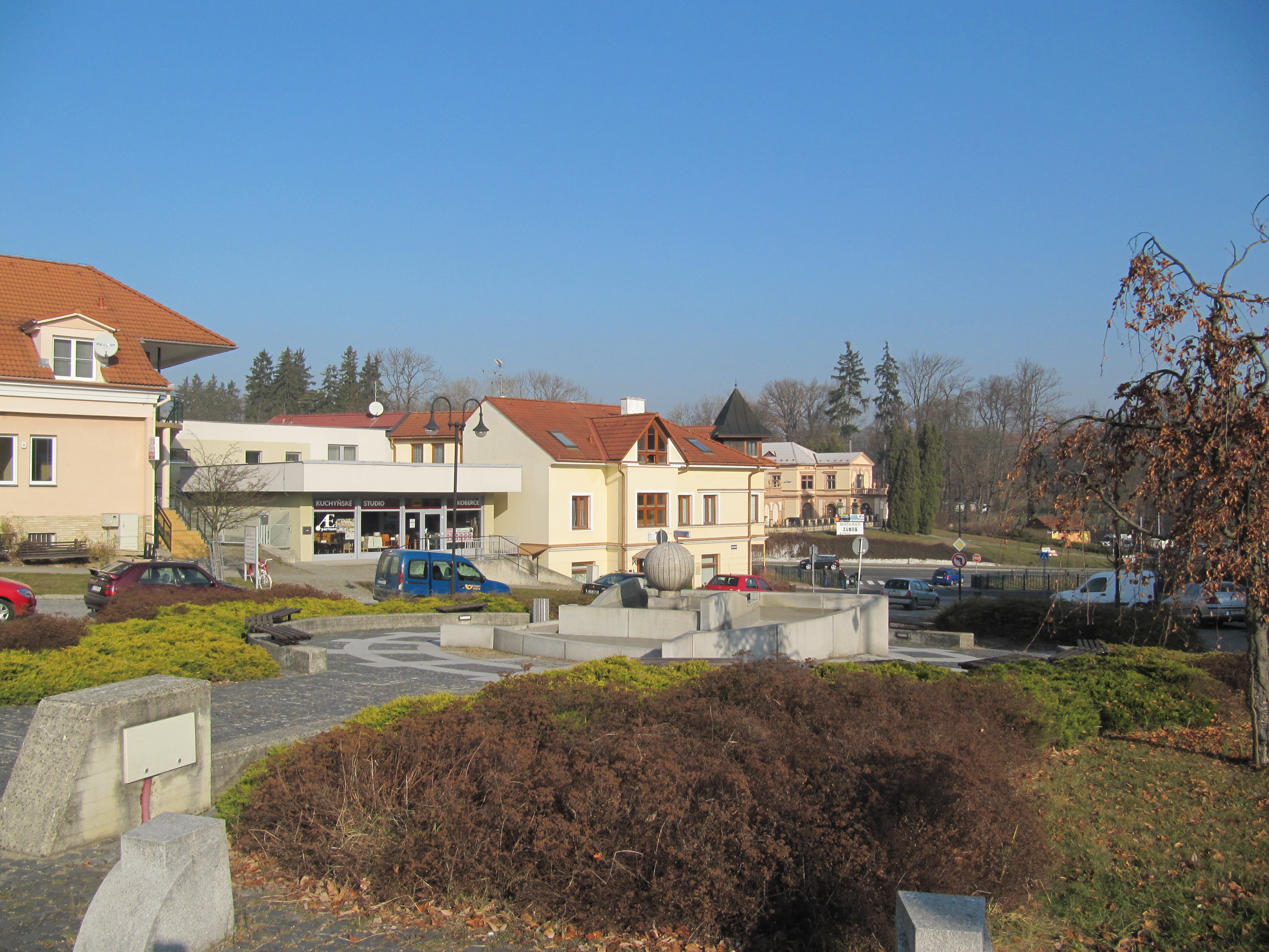 Slavičín in Zlín District, Czech Republic. Square Horní náměstí, eastern part with springwell, in the background the castle.